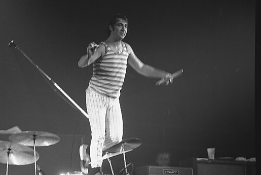 Keith Moon, MLG, Toronto,10/21/76 Photo by Jean-Luc Ourlin